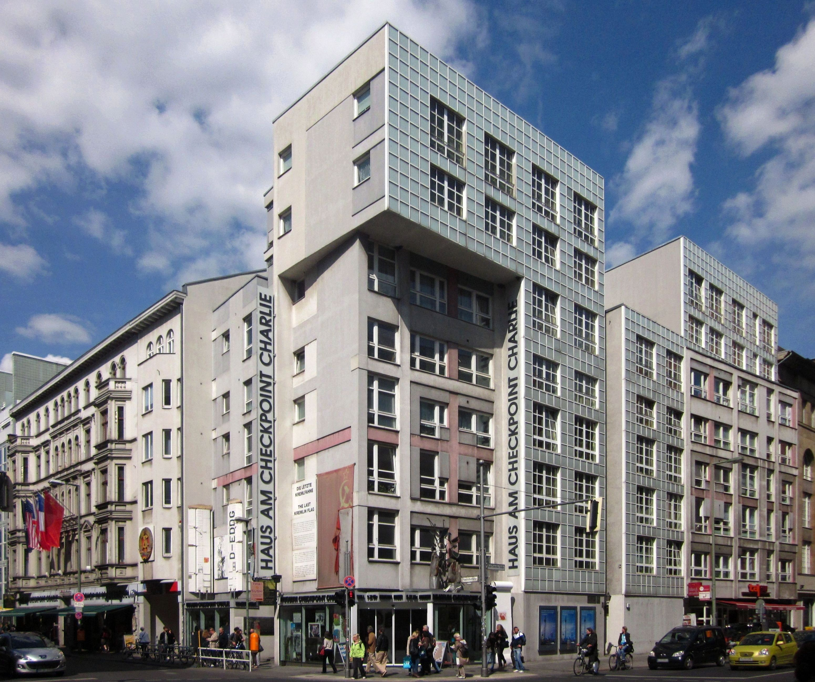 The House at Checkpoint Charlie at Friedrichstraße No. 43-44, corner of Rudi-Dutschke-Straße No. 28 (on the right), in Berlin-Kreuzberg. The complex consists of two parts: an old building at Friedrichstraße No. 44, which after 1963 was housing the Berlin Wall Museum, and the new building at the corner of Friedrichstraße and Rudi-Dutschke-Straße, which was built from 1985 to 1986 to a design by Peter Eisenman, a project of the International Building Exhibition 1984. It was originally a residential building, but is now used by the Berlin Wall Museum.